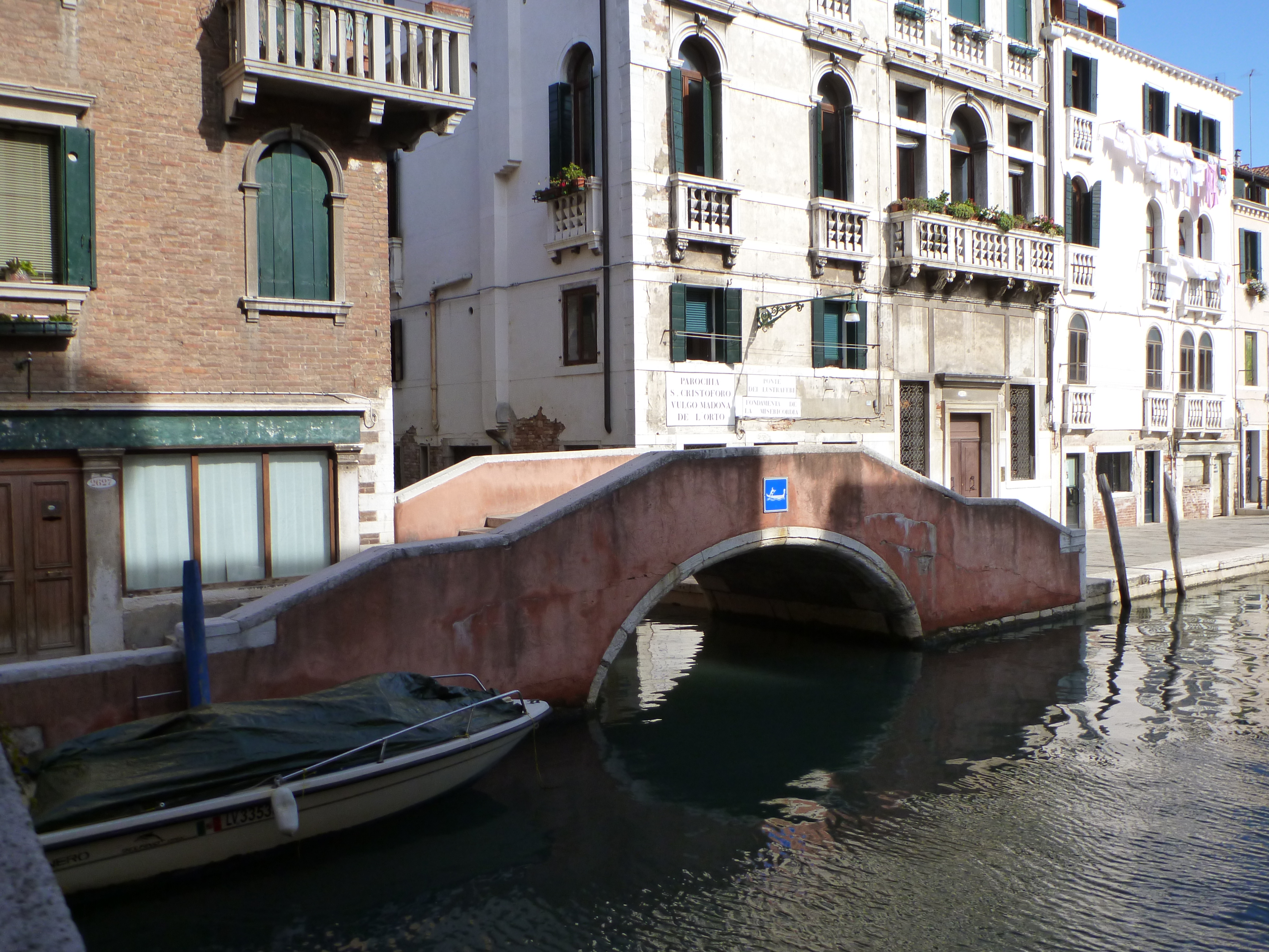 PONTE DEI LUSTRAFERI, Canaregio, Venezia